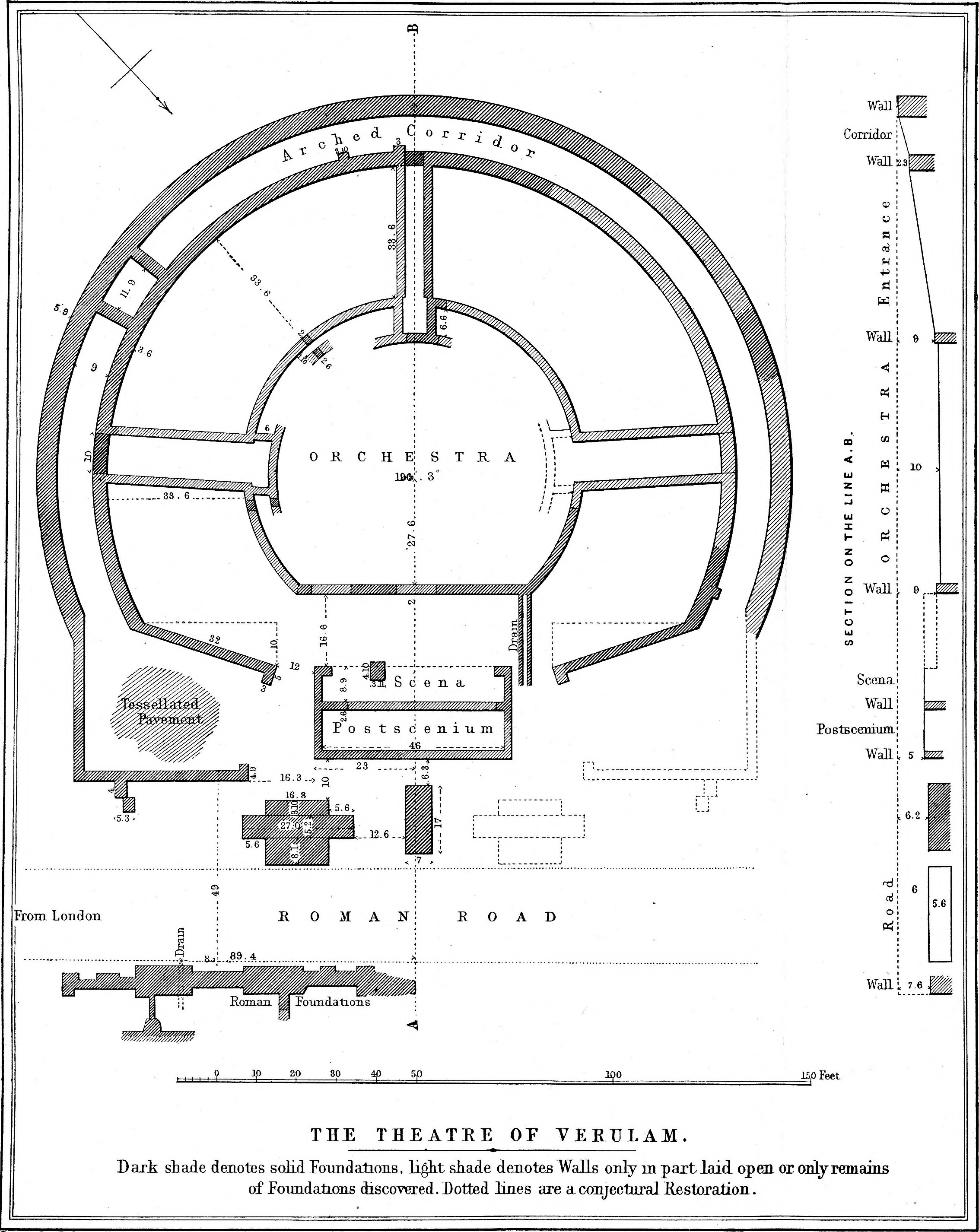 Title: The Victoria history of the county of Hertford Year: 1902 (1900s) Authors: Page, William, 1861-1934, ed Subjects: Natural history Publisher: Westminster (etc. , A. Constable & company, limited) Text Appearing Before Image: ' Text Appearing After Image: Drawn iy E Grove Lowe XE-Jdnbiiis Verulamium : Plan of Theatre Plate VI